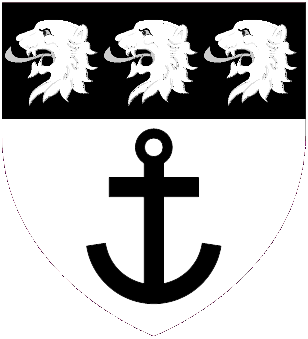 Shield of arms of The Lord Ritchie of Dundee